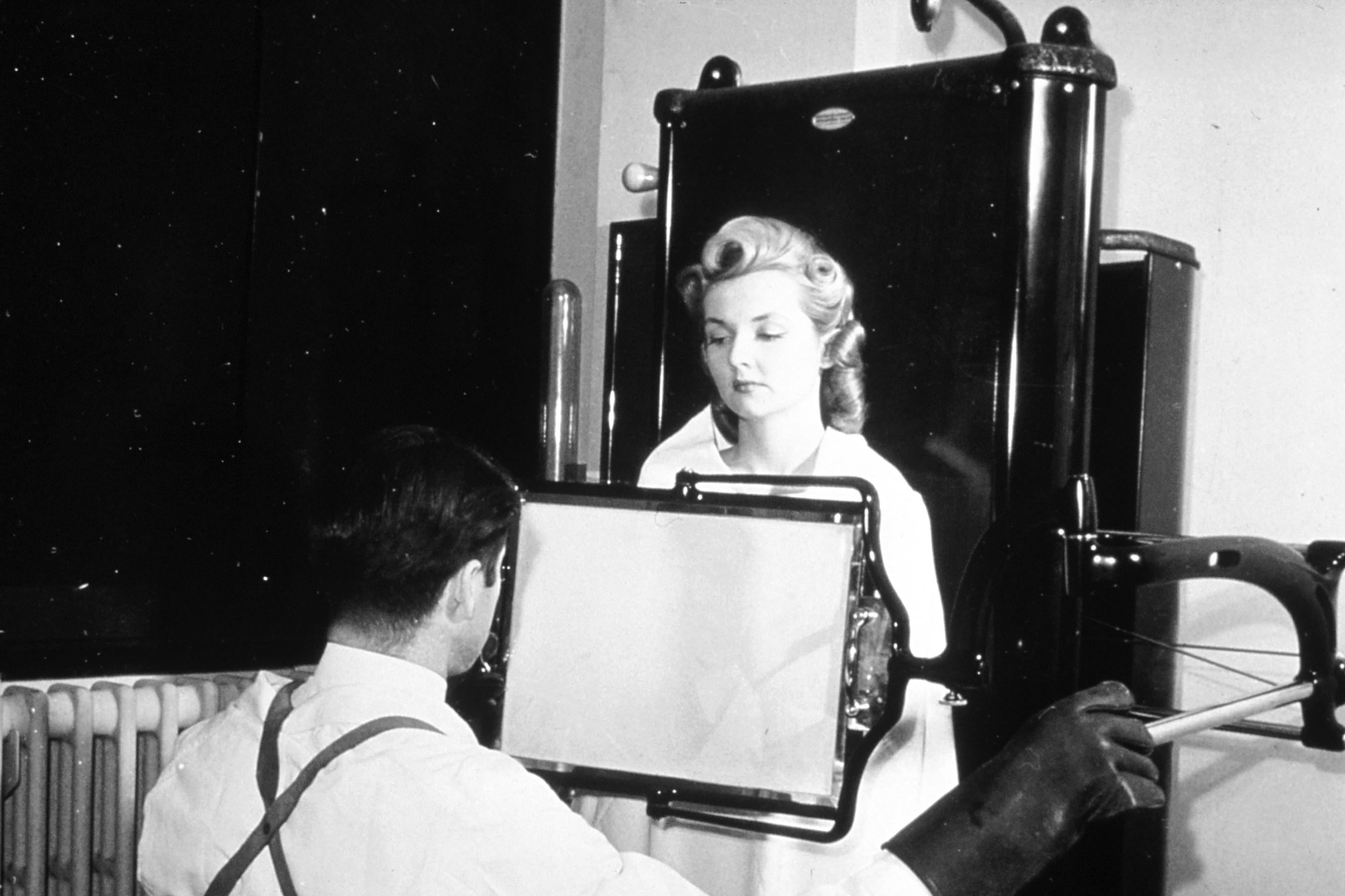 Shown is a male technician taking a x-ray fluoroscope of a female patient. The x-ray tube is behind the patient, and a glass screen with a fluorescent coating in front of the patient makes the image visible. Fluoroscope exams gave much higher radiation exposures than film x-ray images. This image was used to demonstrate the myth about exposure to radiation during the x-ray procedure.